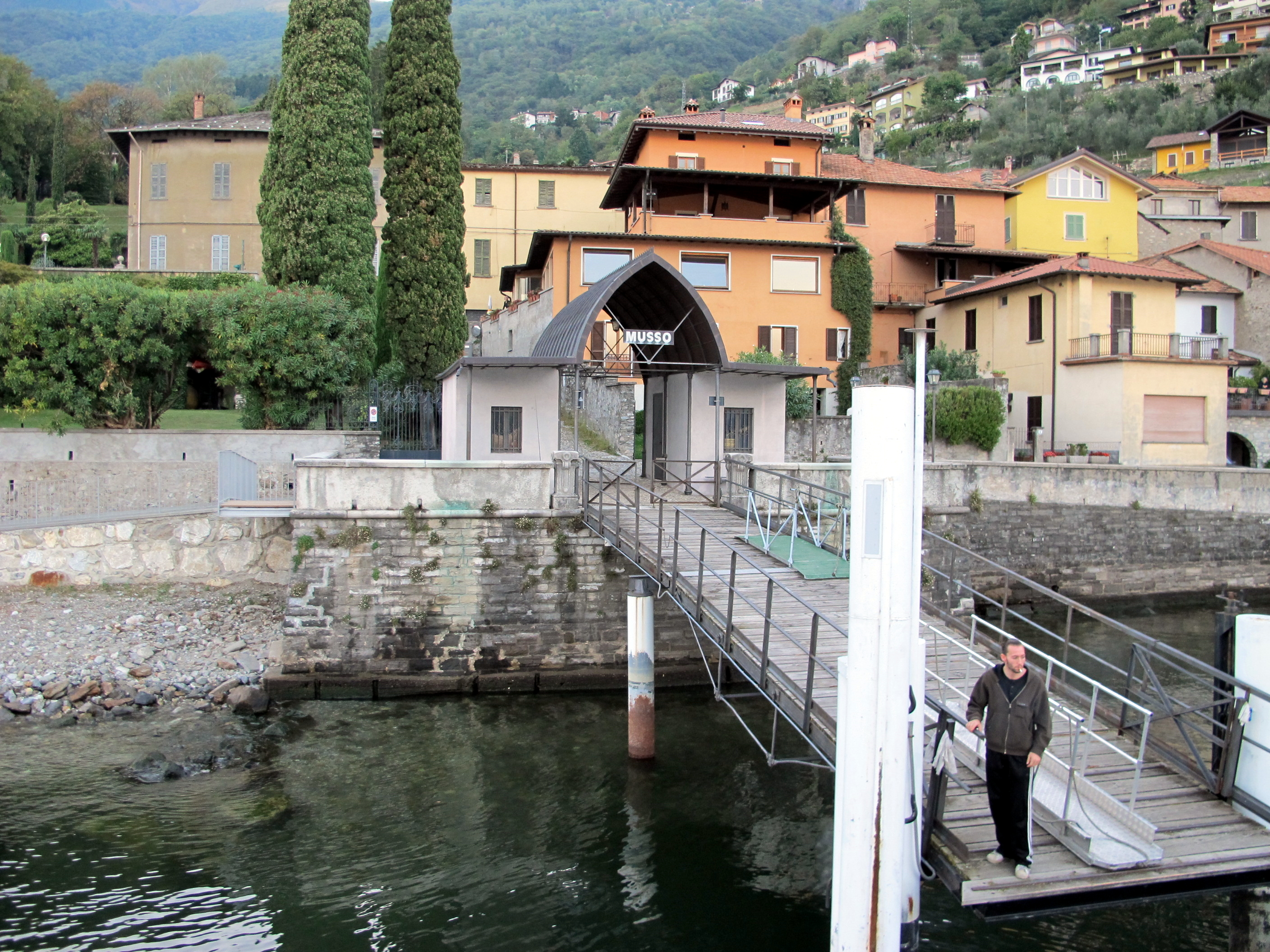 Italy, Lombardy, Lake Como, Musso, pier